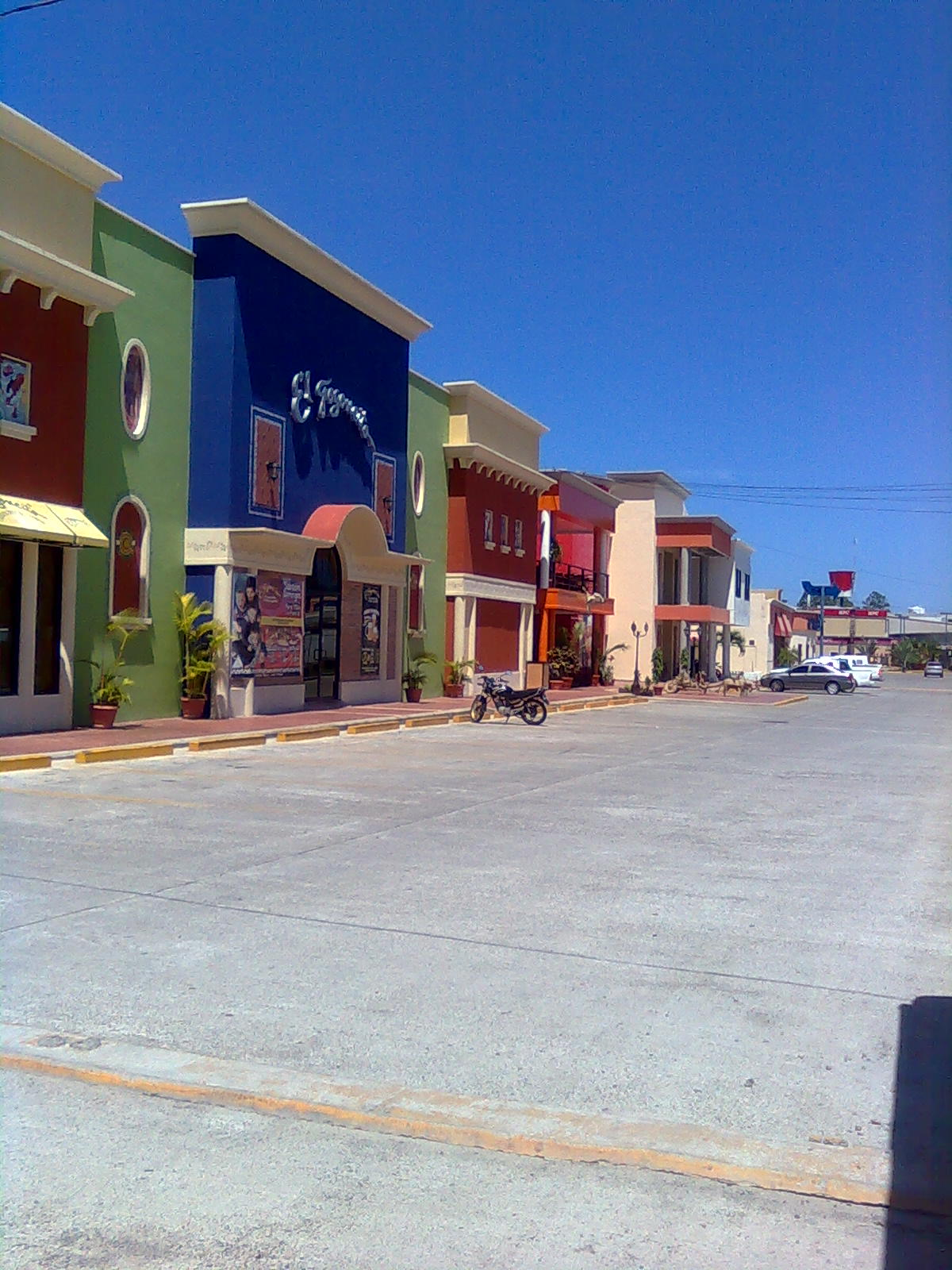 Plaza Premier, a shopping center in La Ceiba — a city in the Honduran department of Atlántida.